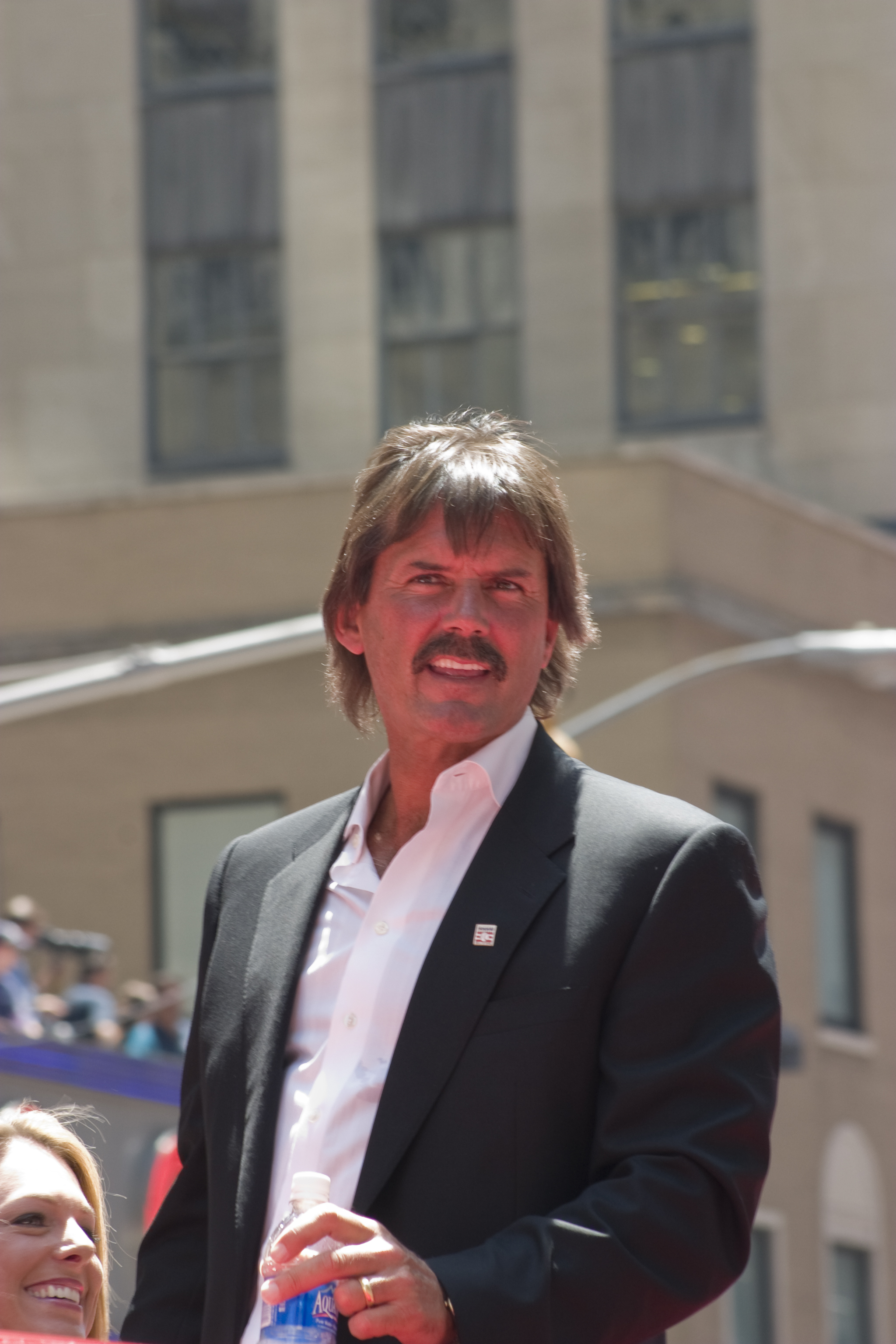 American baseball pitcher Dennis Eckersley at the All-Star Game Red Carpet Parade 2008.